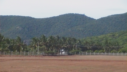 Elangakurichy is surrounded by mountain and ponds